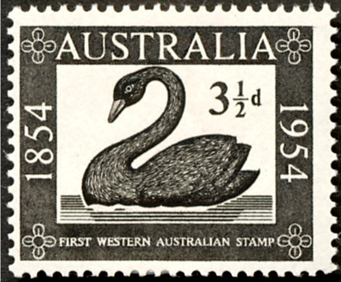 A postage stamp of Australia issued 1954 -Western Australia Stamp Centenary with black swan